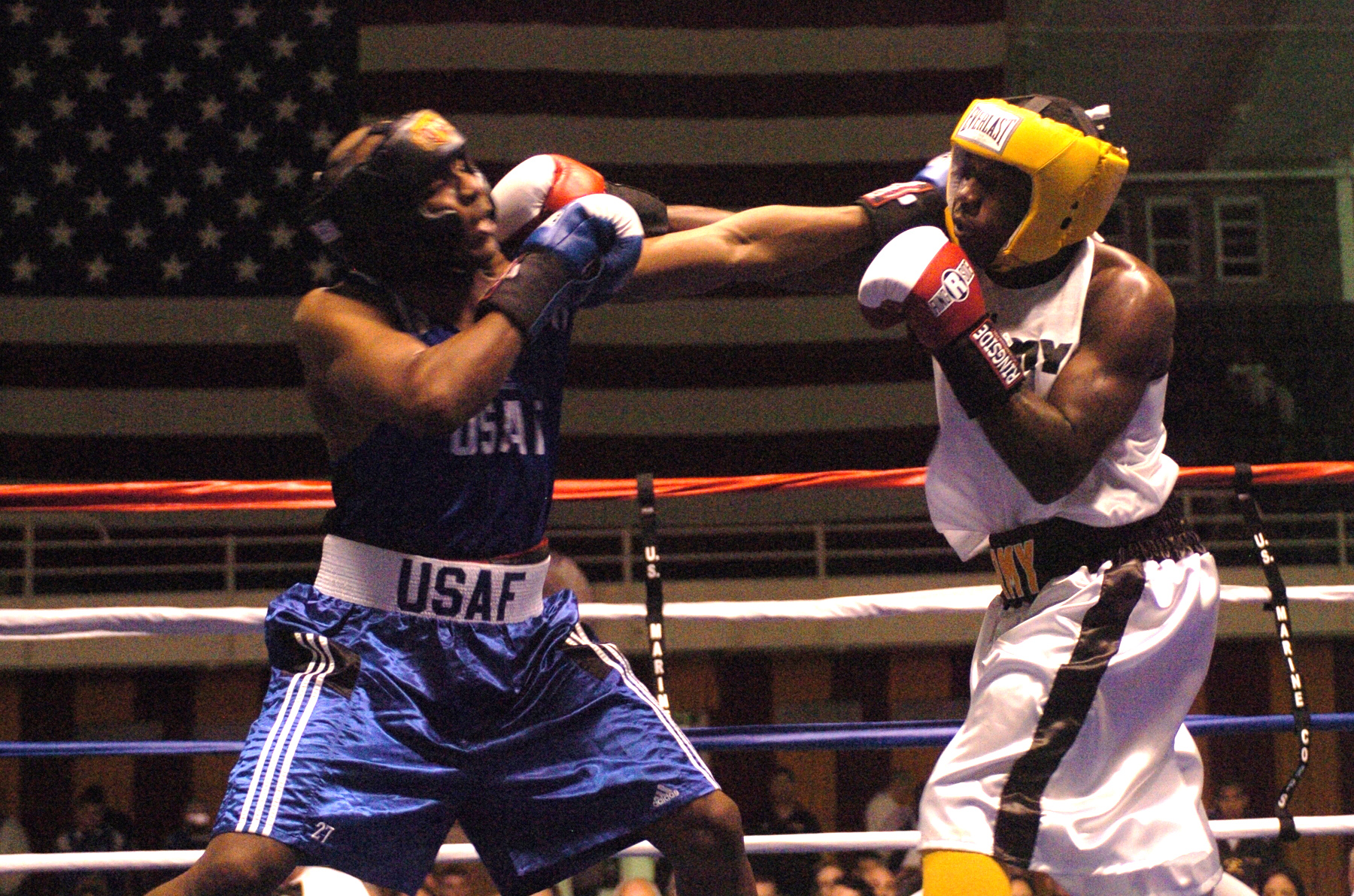 SpencerVsEllison.jpg Photo by Tim Hipps, Family and MWR Command February 13, 2008 Spc. Jeffrey Spencer of Fort Carson, Colo., prevails 10-6 over Capt. Rodney Ellison Jr. of F.E. Warren Air Force Base, Wyo., in the 178-pound finale of the 2008 Armed Forces Boxing Championships Feb. 7 at Marine Corps Base Camp Lejeune, N.C.